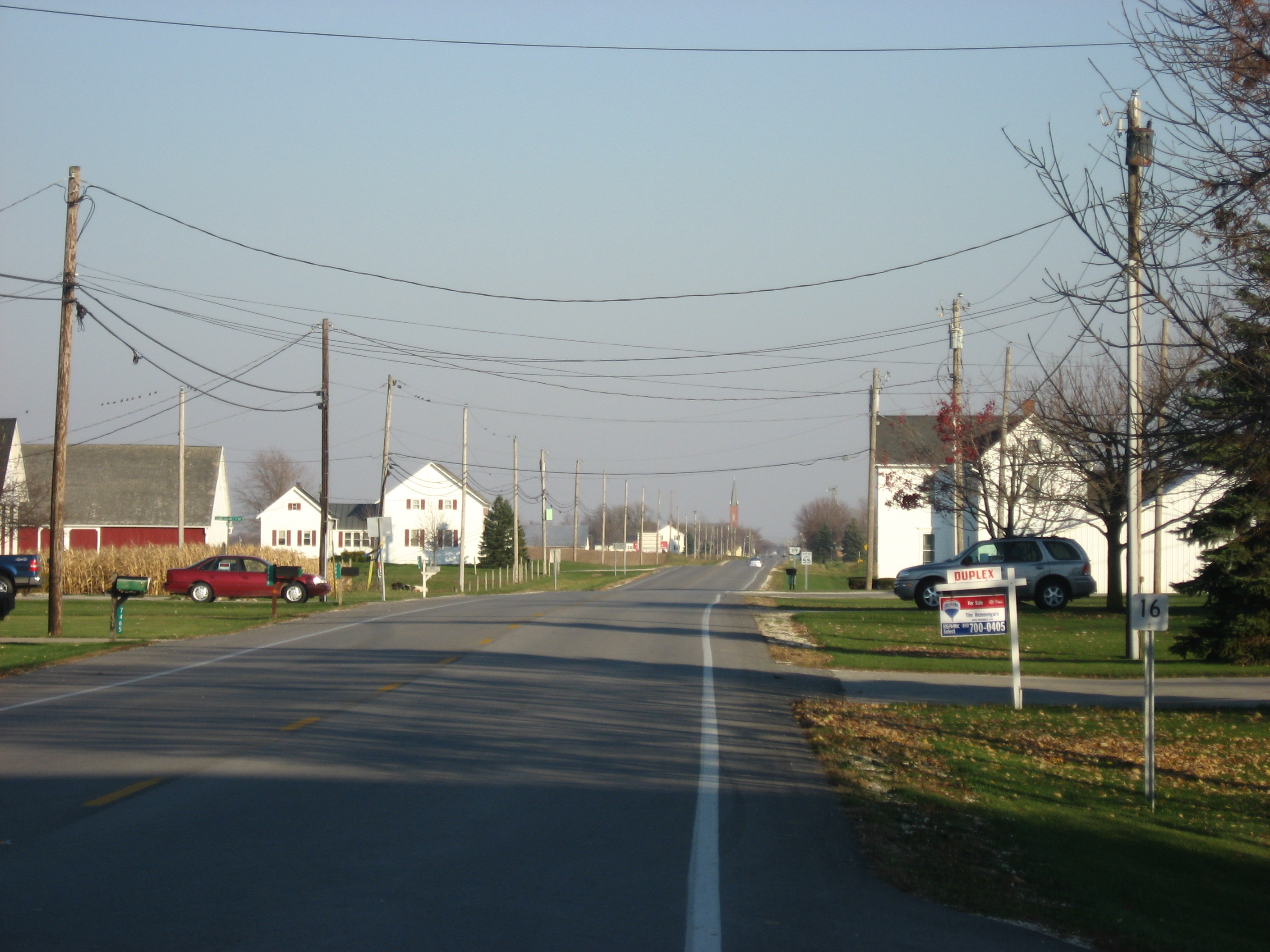 Eastward along Ohio State Route 119 from the unincorporated community of St. Rose in Marion Township, Mercer County, Ohio, United States. This is located near the heart of the region known as the "Land of the Cross-Tipped Churches", which features many large Roman Catholic churches in tiny crossroads communities within sight of each other. Taken in the shadow of St. Rose Church, it shows the tower of St. John the Baptist Church in Maria Stein, and the tower of Nativity of the Blessed Virgin Mary Church can easily be seen from this location in the opposite direction. These churches and many others in the vicinity were listed on the National Register of Historic Places as a part of the Cross-Tipped Churches of Ohio Thematic Resources.